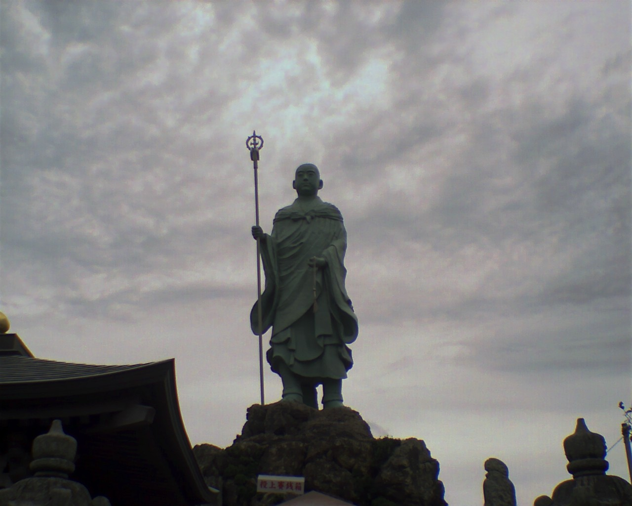 Statue of the 'Great Teacher' (ja: Taishi, 大師) Kūkai in the temple 'Henjōin' (ja: 遍照院) in Sasaguri, Fukuoka (Japan). This temple is one of the eighty-eight temples of the "Sasaguri-Shikoku pilgrimage course" in Sasaguri.